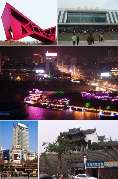 Montage of Jinhua